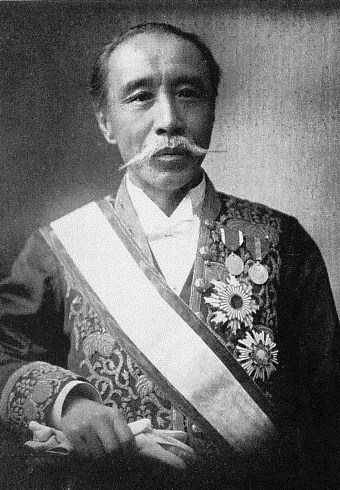 Mikao Nambu